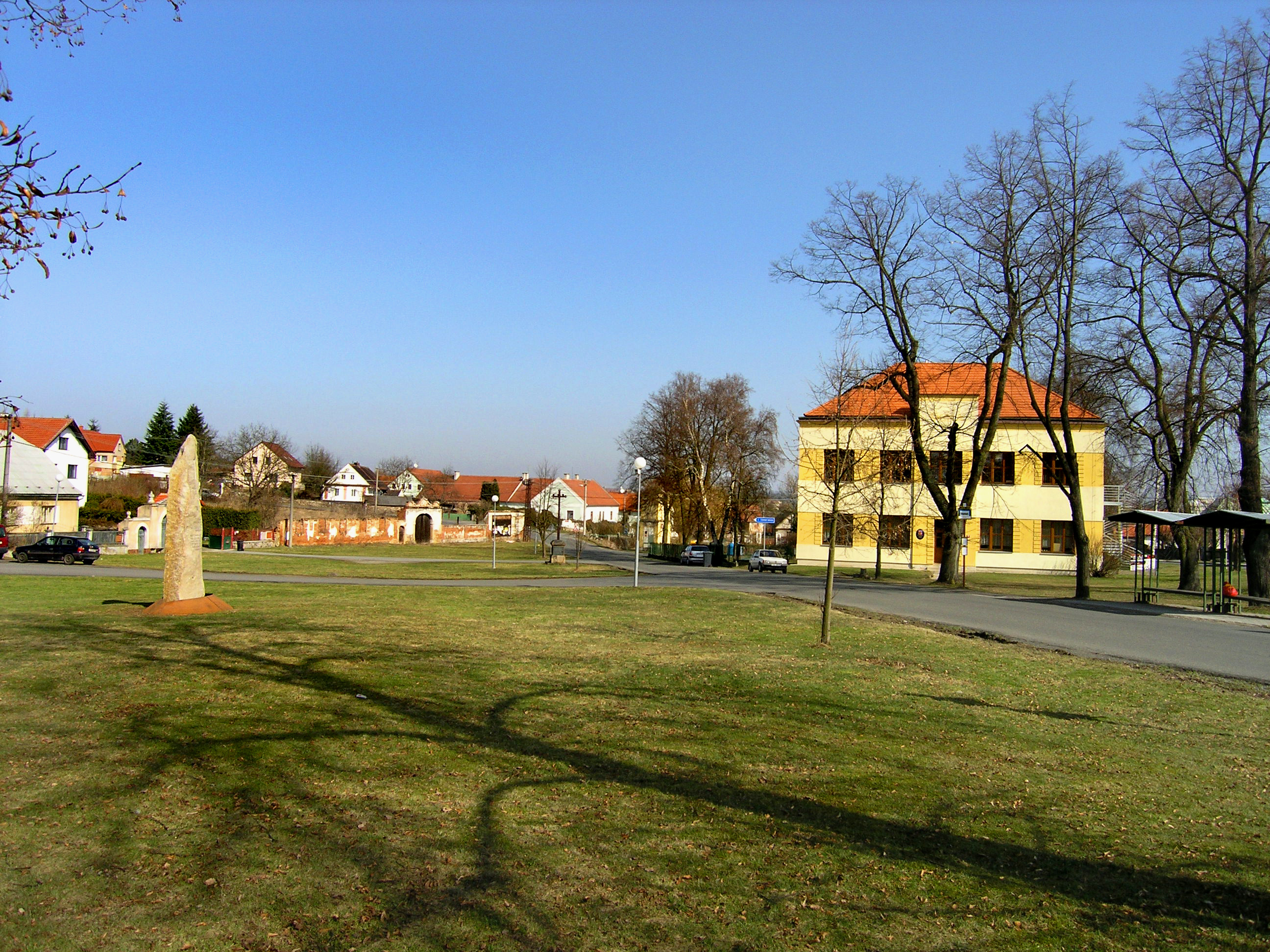 Common in Kyšice village, Czech Republic